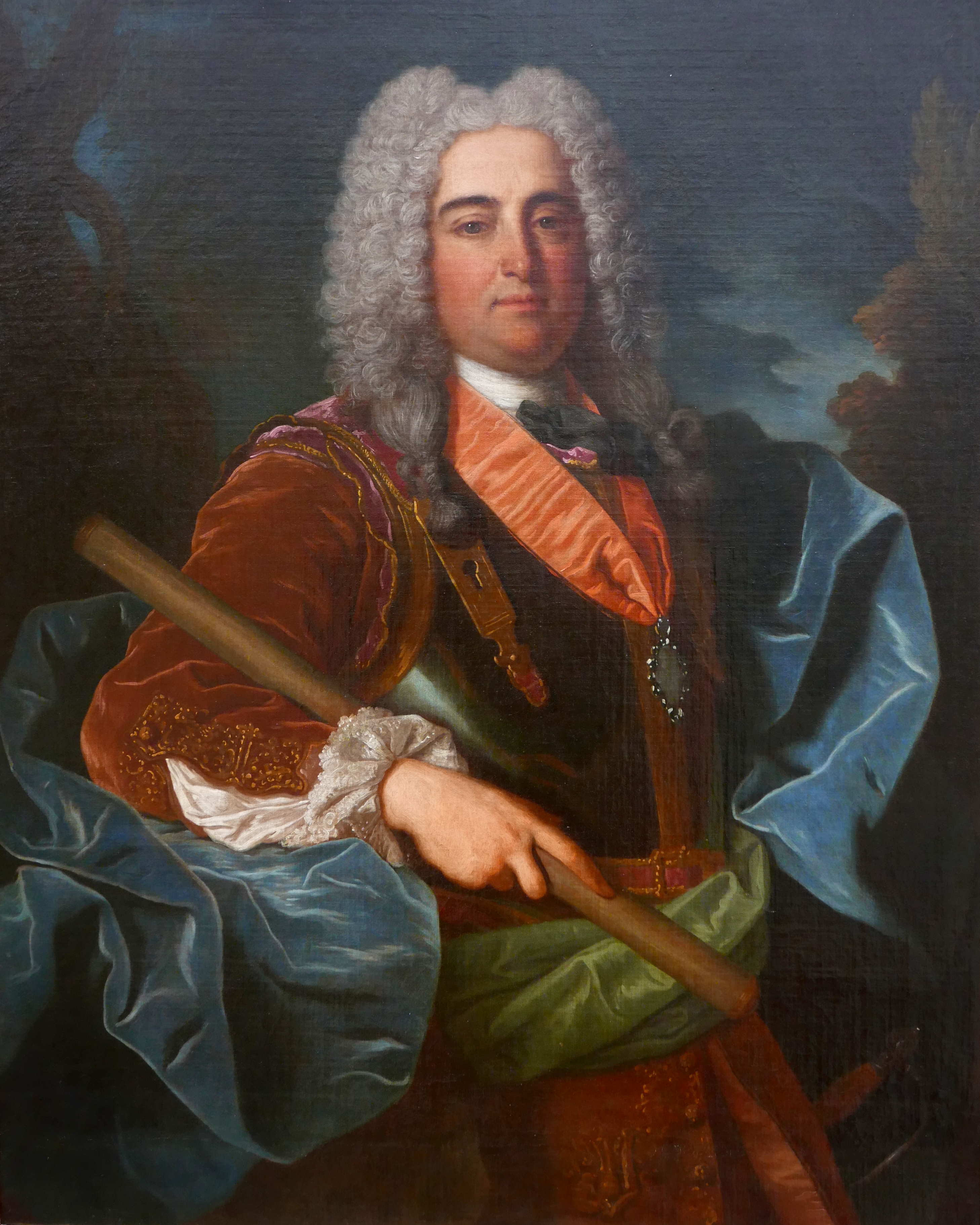 Montpellier (Hérault, Languedoc, Occitanie), Musée Fabre, temporary exhibition, unfortunately interrupted by the covid 19 pandemic then extended until June 28, 2020, "Jean Ranc, a native of Montpellier at the court of Kings".